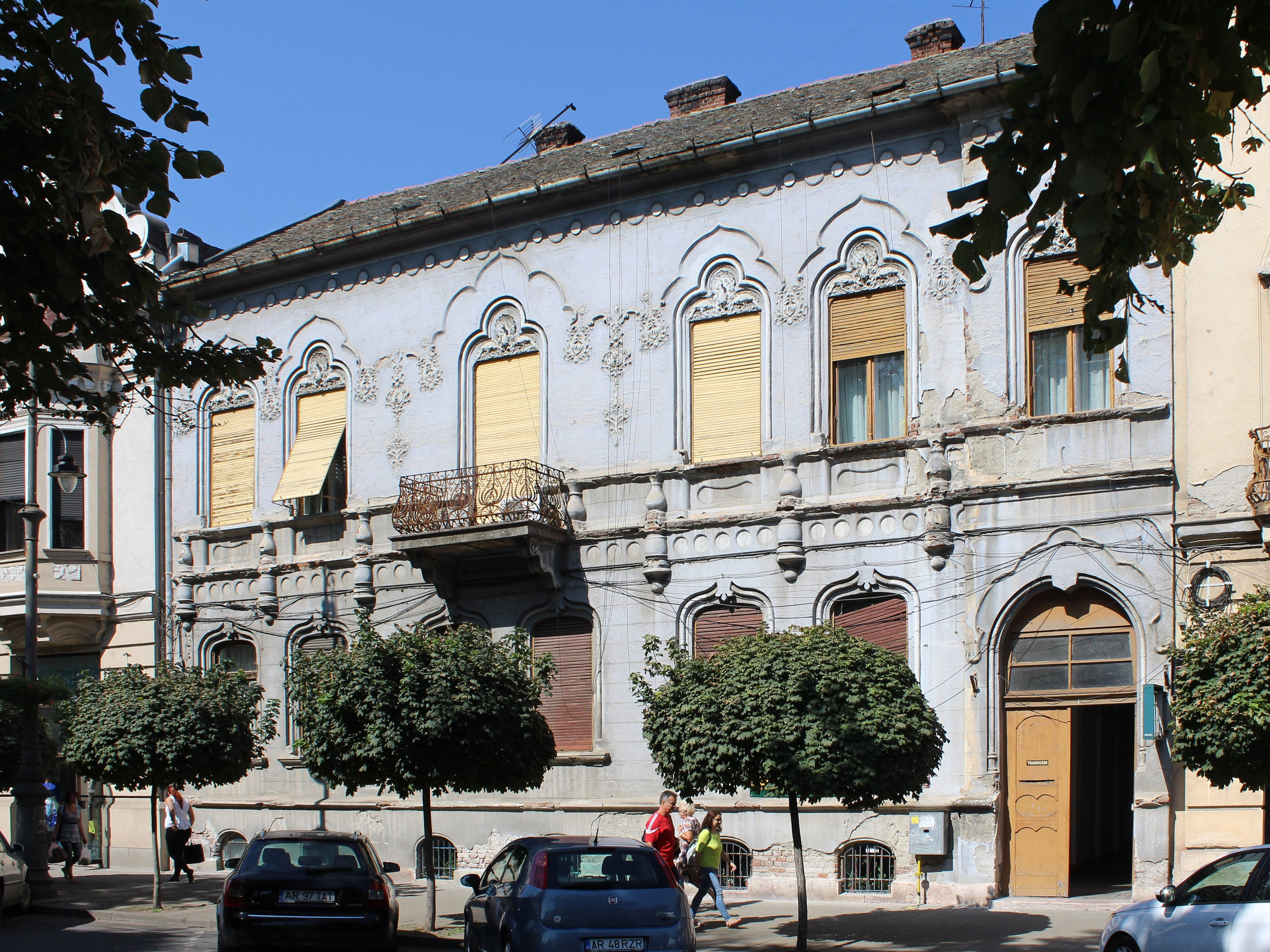 House in Arad, Romania, Revoluției av., no 40, built about 1909